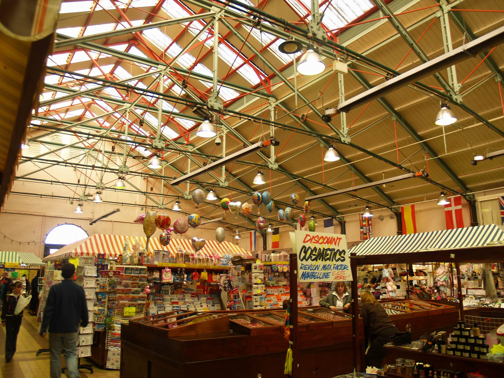 Fleetwood-Mar 2008-Fleetwood Market Main Hall